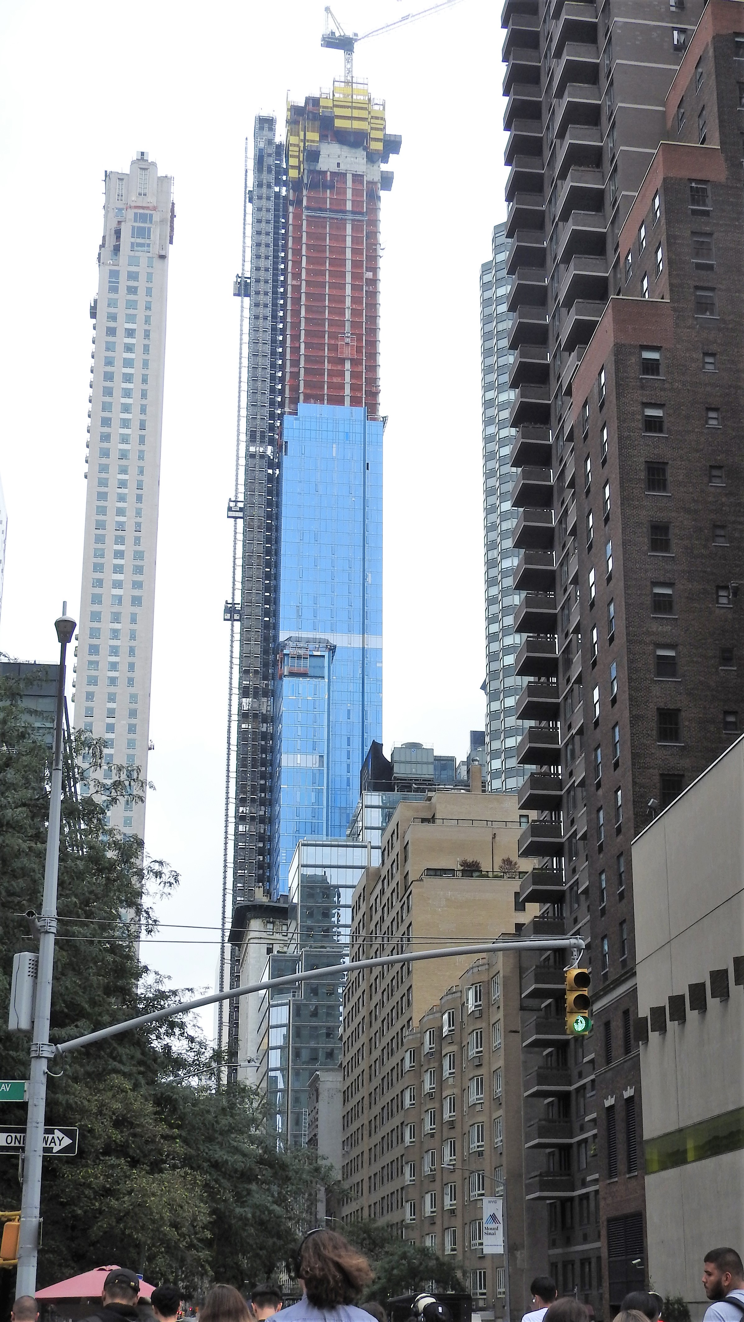 Looking east along 58th Street at completed and uncompleted (217 W57 St) buildings